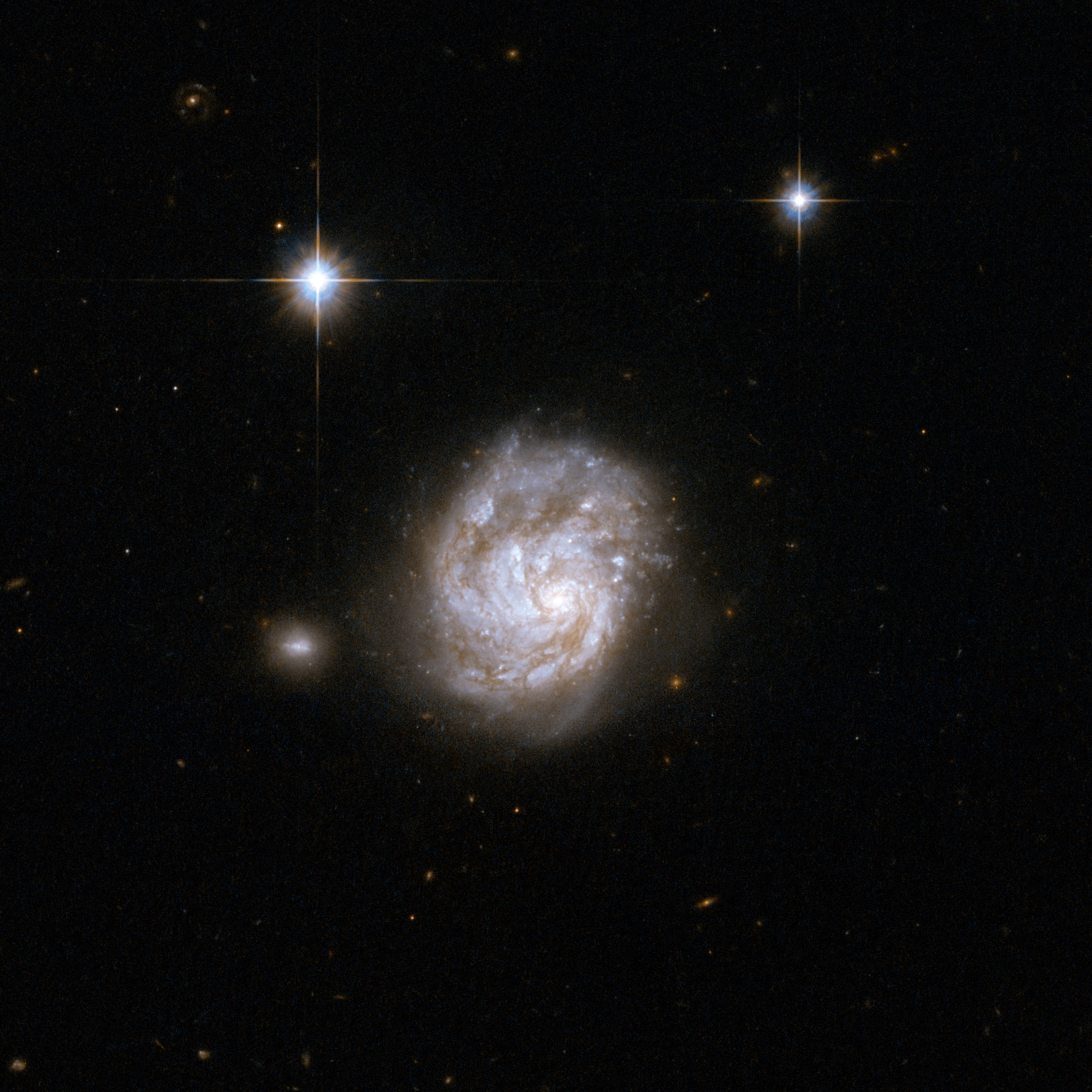 NGC 695 is a peculiar galaxy which looks like a revolving tornado. It is a disturbed spiral galaxy, seen face-on, with loosely wound spiral arms. Knotty star-forming regions are tangled in a mesh of dust and gas. NGC 695 is in an interaction with a small companion located just outside the image to the left. Scientists believe that this is a recent but relatively weak interaction. NGC 695 is located in the constellation of Aries, the Ram, about 450 million light-years away from Earth. This image is part of a large collection of 59 images of merging galaxies taken by the Hubble Space Telescope and released on the occasion of its 18th anniversary on 24th April 2008. About the objectObject nameNGC 695, V Zw 123Object descriptionInteracting GalaxiesPosition (J2000)01 51 14.38 +22 34 58.7ConstellationAriesDistance400 million light-years (150 million parsecs)About the dataData descriptionThe Hubble image was created using HST data from proposal 10592: A. Evans (University of Virginia, Charlottesville/NRAO/Stony Brook University)InstrumentACS/WFCExposure date(s)August 22, 2001Exposure time33 minutesFiltersF435W (B) and F814W (I)